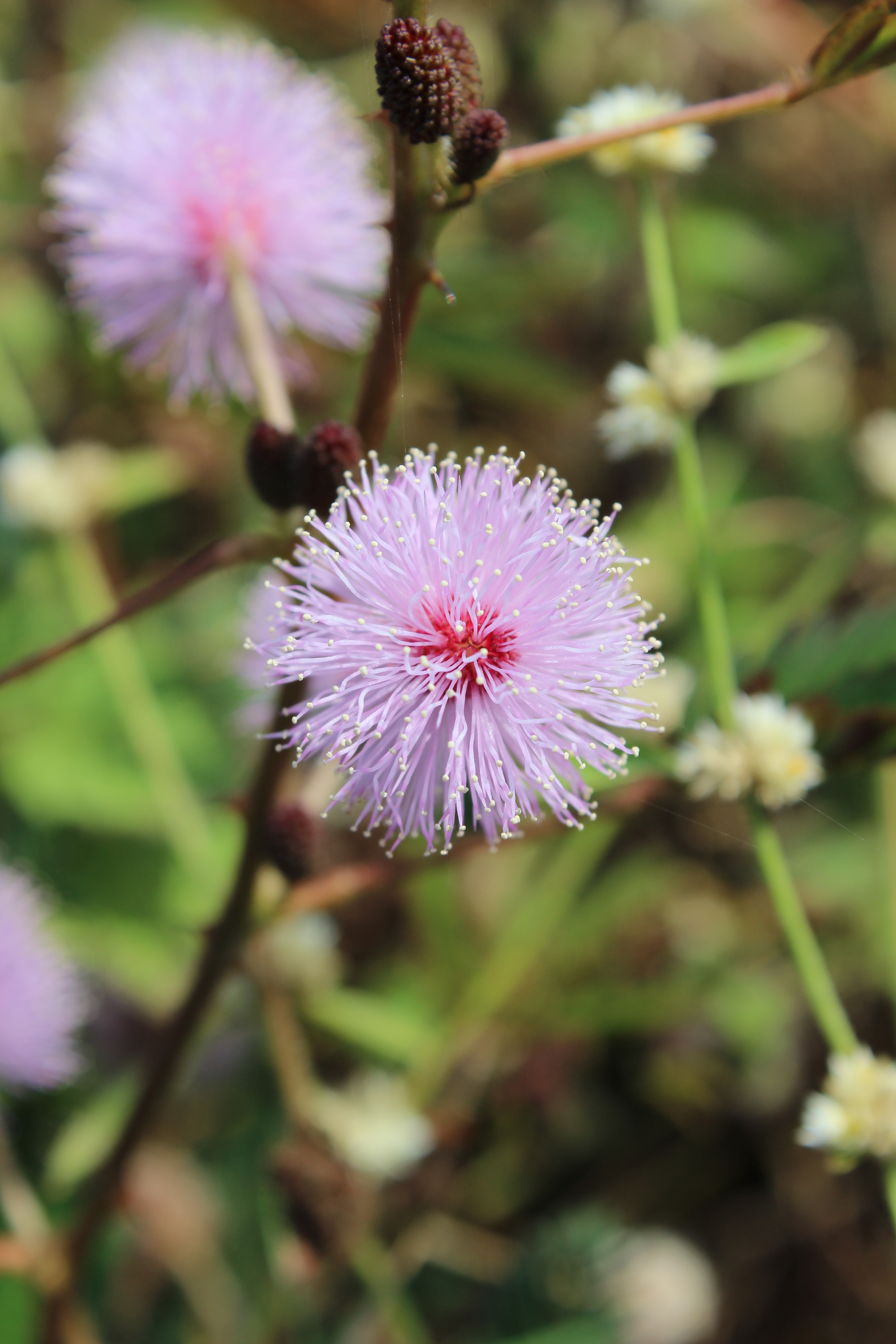 TouchMeNot అత్తిపత్తి